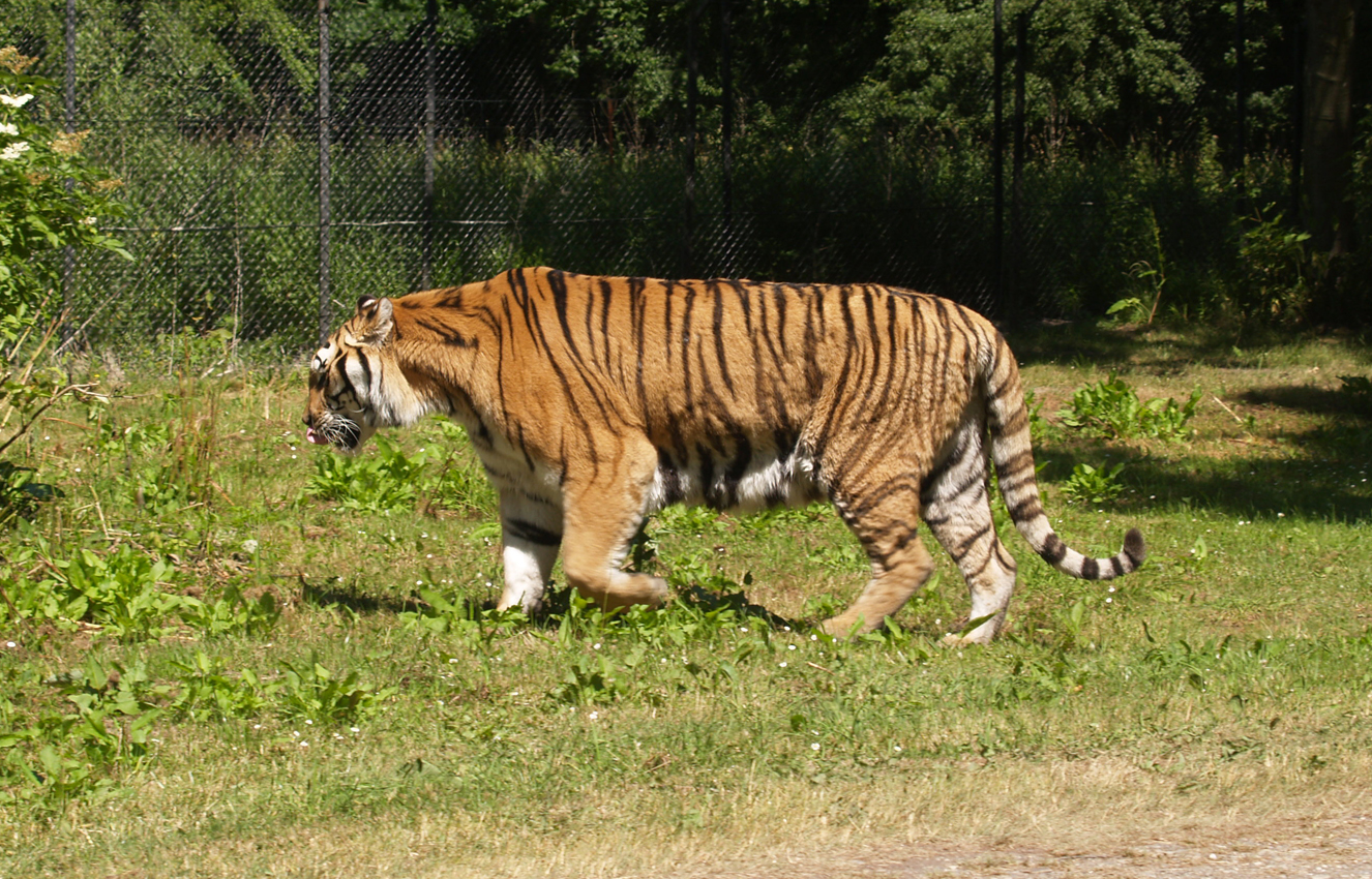 Tiger in Knuthenborg Safaripark near Maribo, Denmark